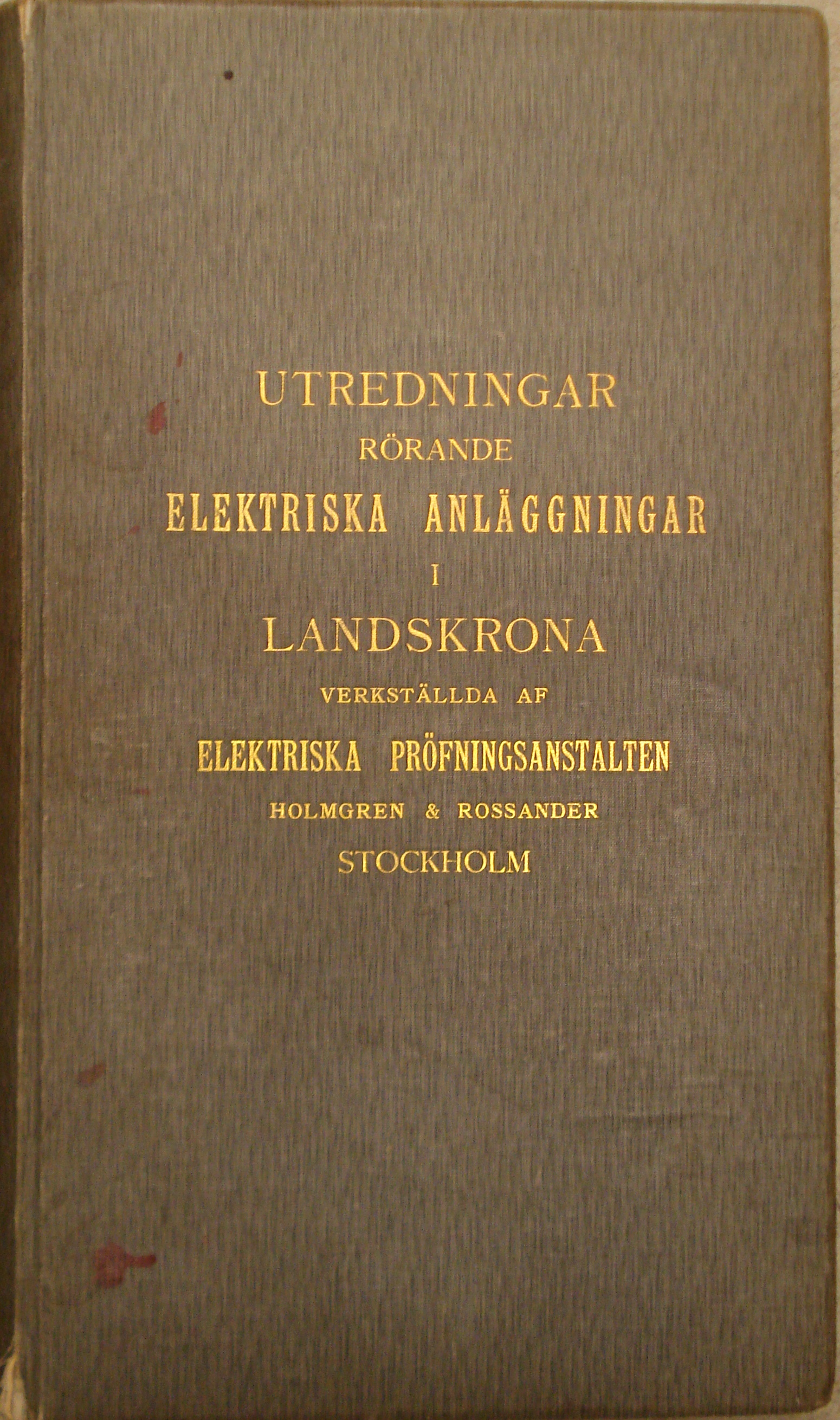 Cover of the investigation of power expansion in landskrona